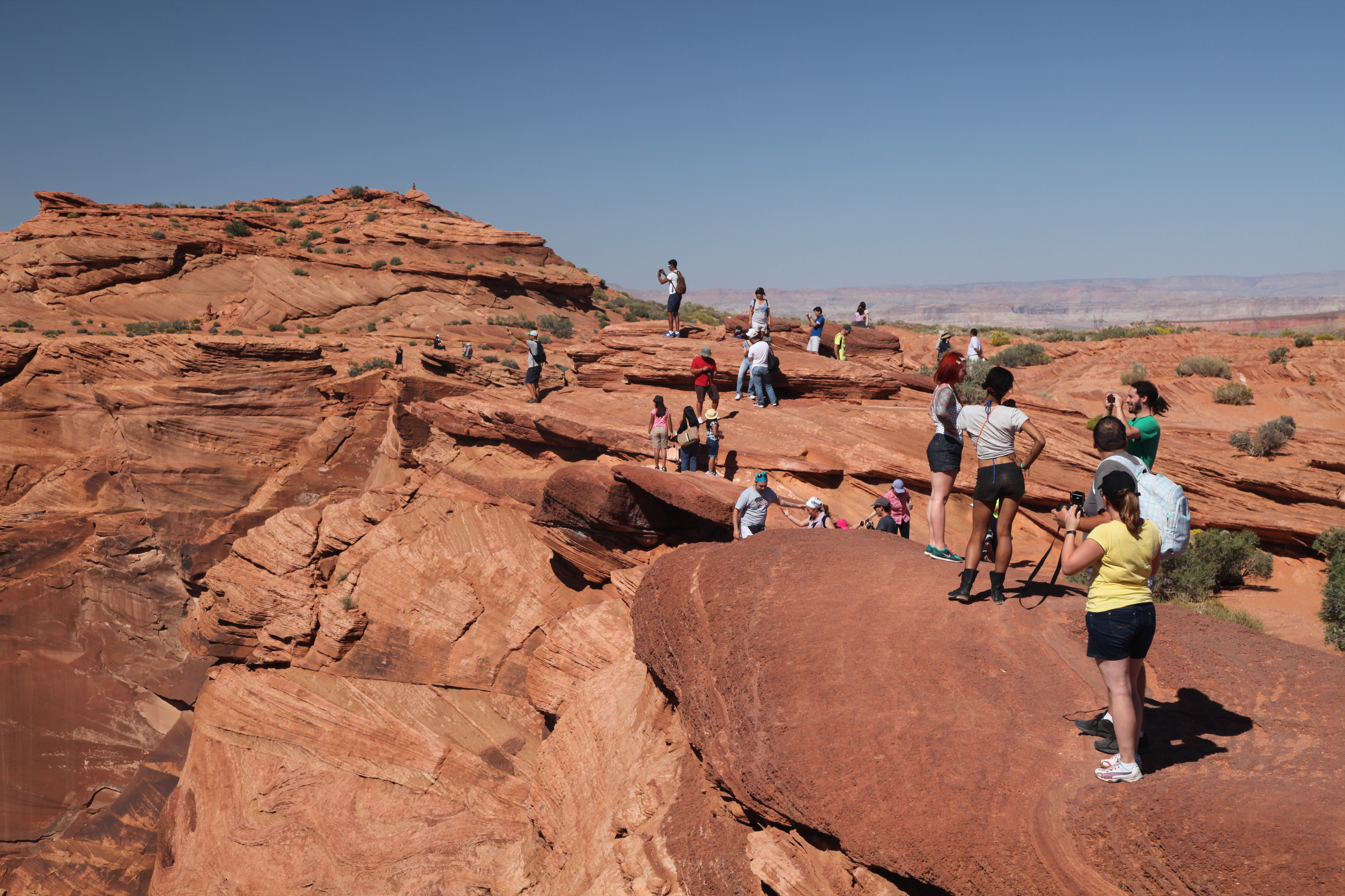 Spectators at Horseshoe Bend